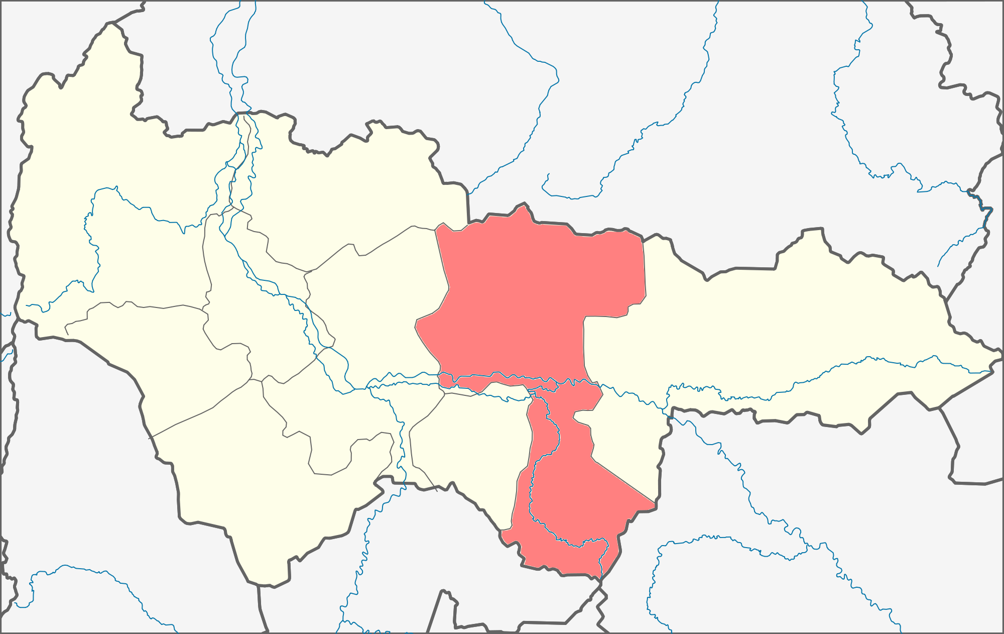 Location of Surgutsky District in the Khanty–Mansi Autonomous Okrug, Russia. This is a derivative work, based on